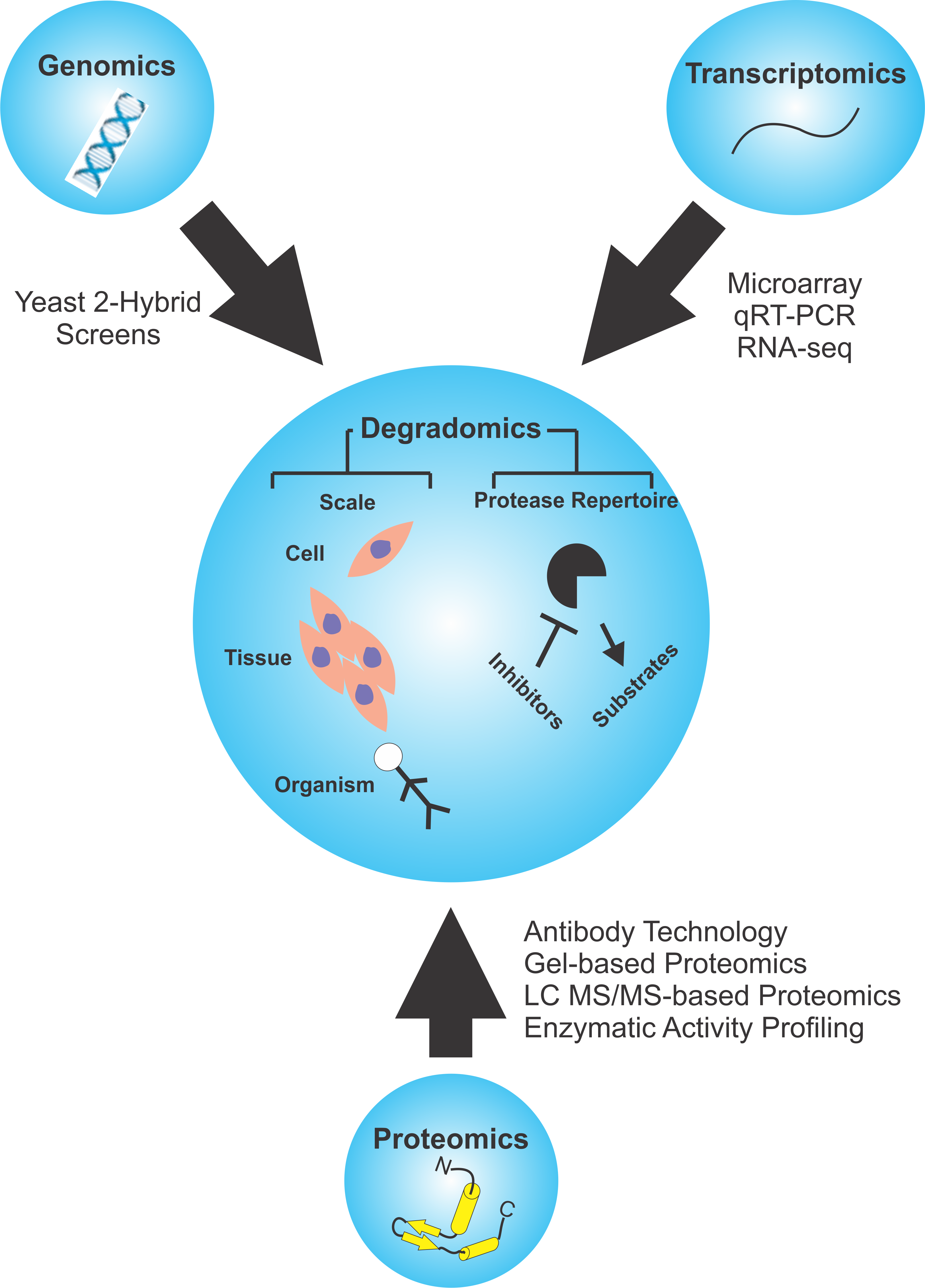 This figure is a representation of degradomics.